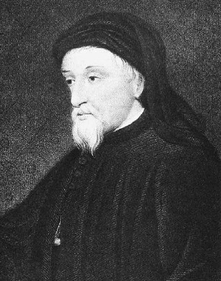 Geoffrey_Chaucer (1343-1400)